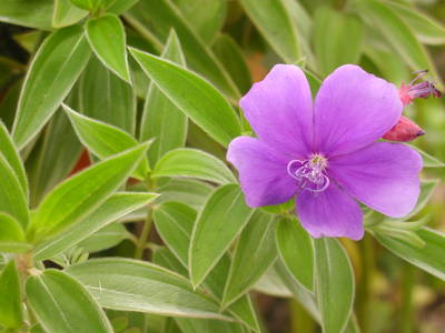 Indian Rhododendron, Harendog, (Melastoma malabathricum).